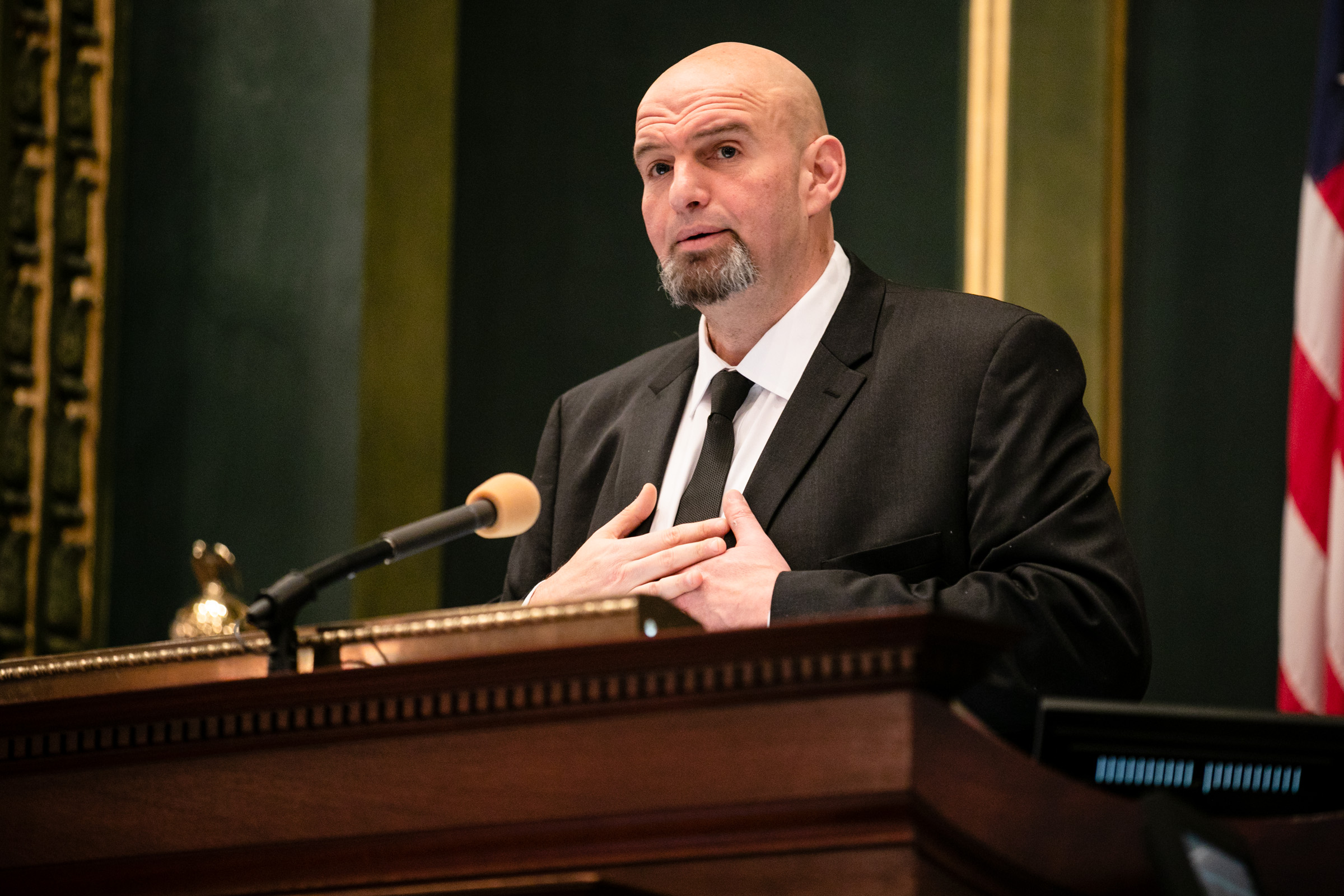 2019 Inauguration of Governor Tom Wolf and Lieutenant Governor John Fetterman